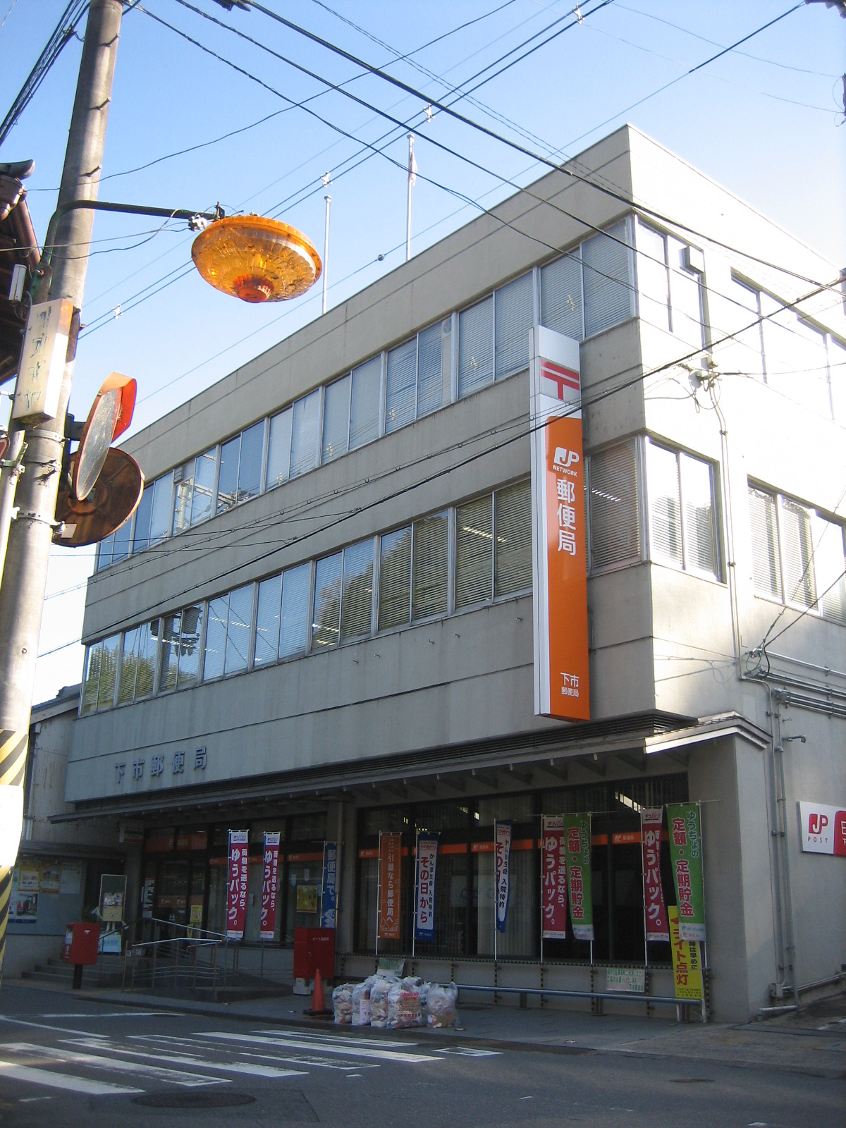 Shimoichi post office in Nara, Japan